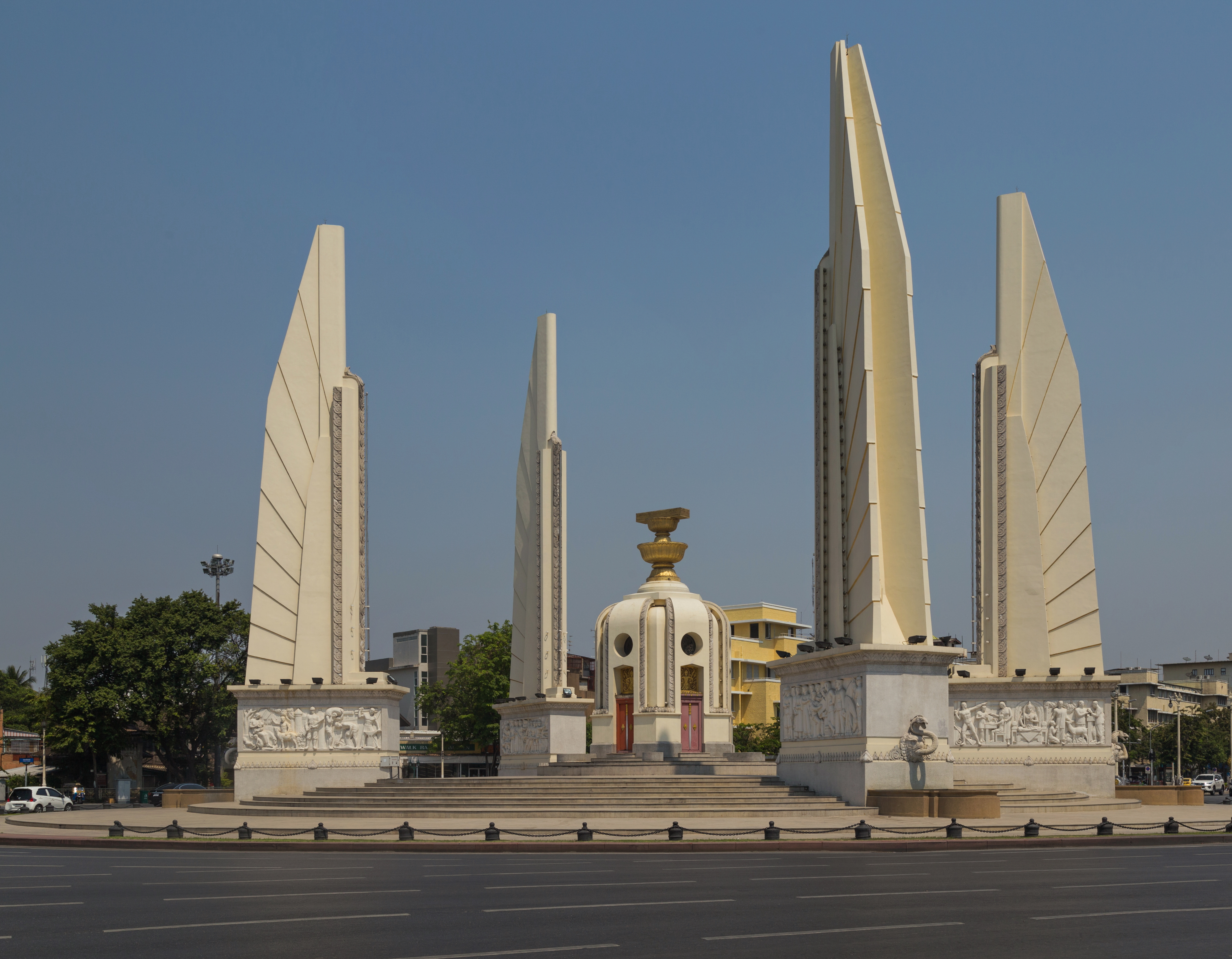 Democracy Monument. Phra Nakhon District, Bangkok, Thailand.